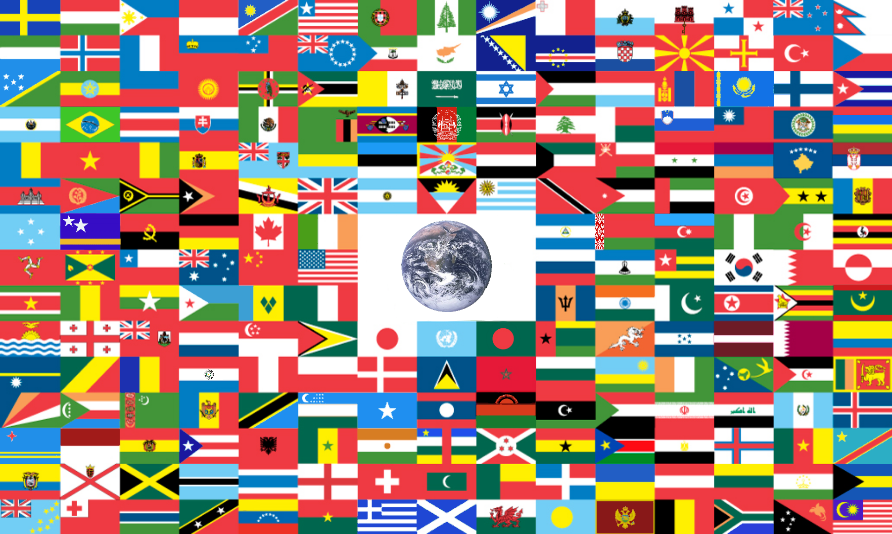 The combined World Flag in 2019. (not really...)